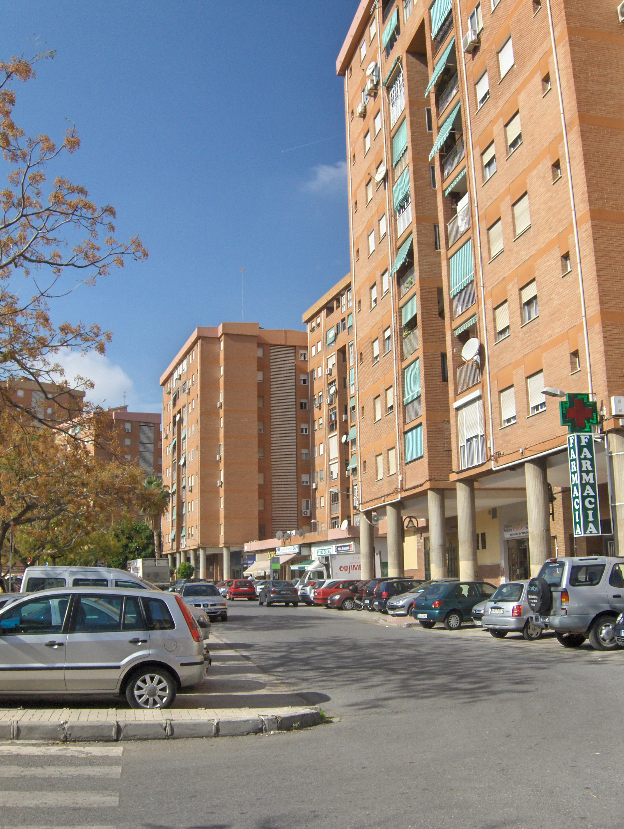 Residential blocks in El Torcal, Málaga, Spain.